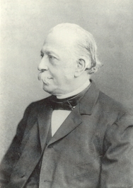 Theodor Fontane (1819-1898), German author and poet